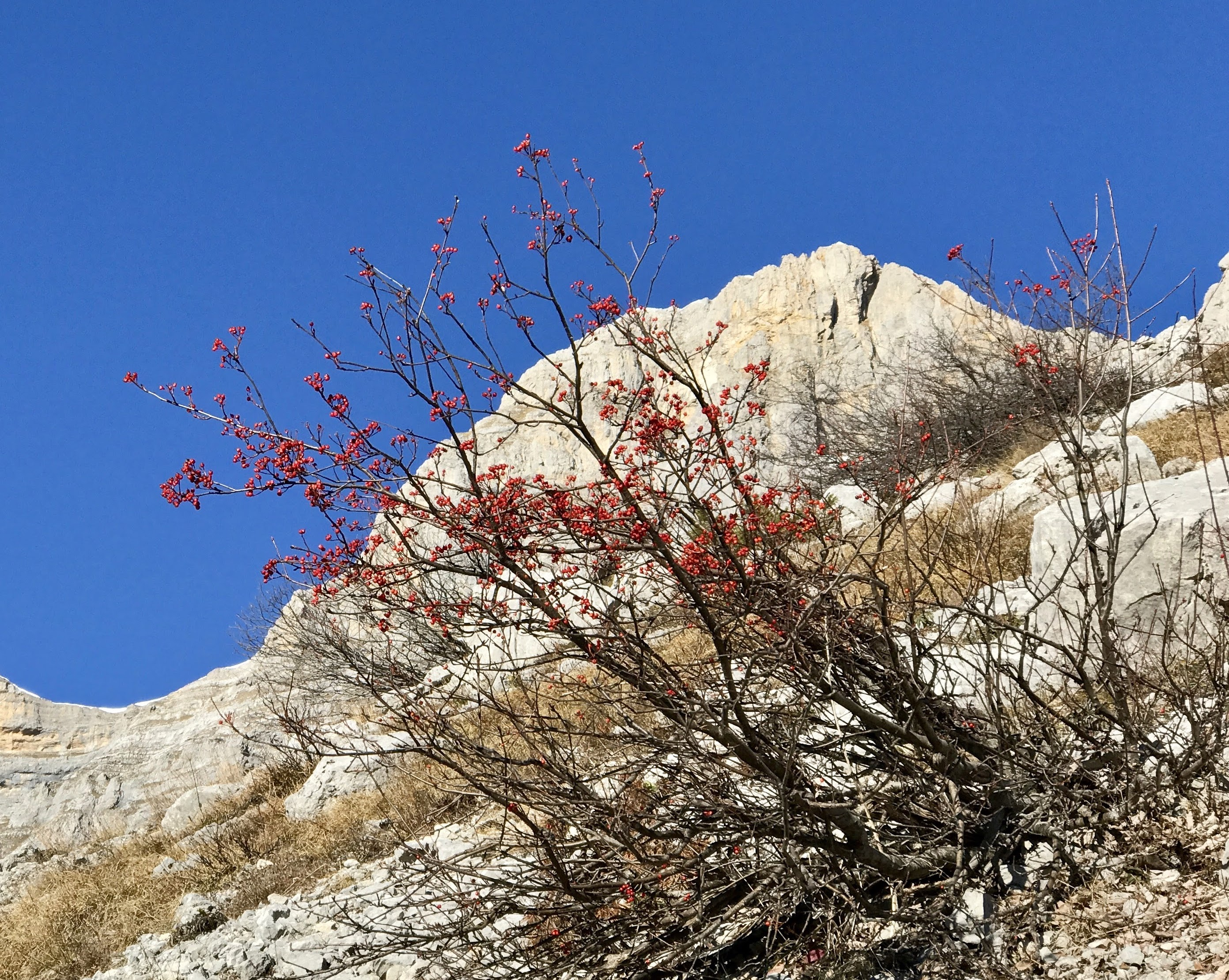 Mountain-ashes - such as this one in the Vercors range - keep their fruits during the late fall season, providing food for birds.